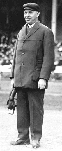 Depicted person: Bill Klem – American baseball umpire